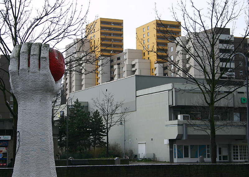 Center of Chorweiler, Cologne. Germany.